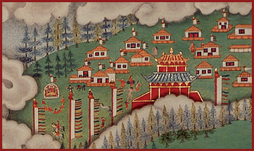 Incampment.